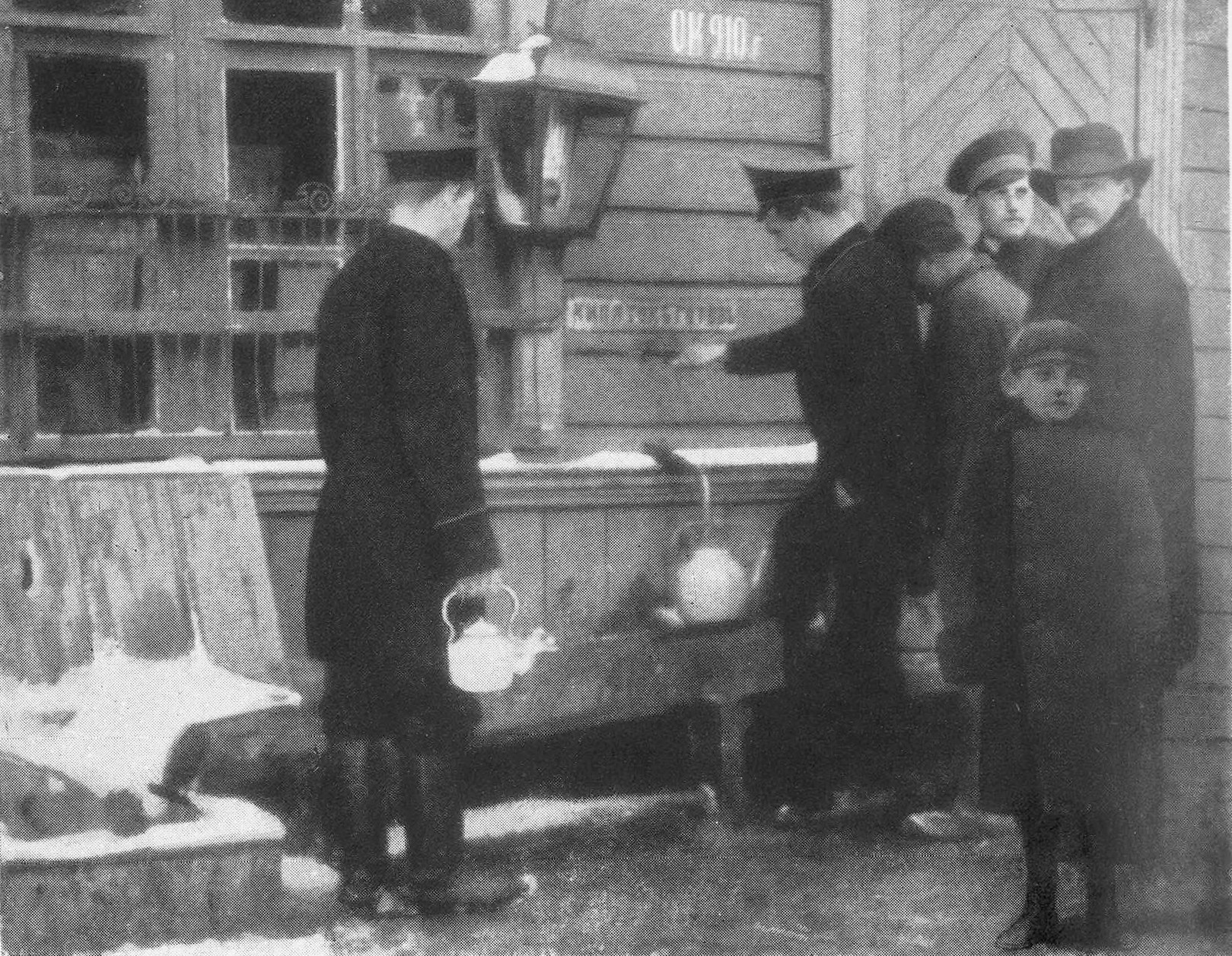 Railway passengers fetching hot water for tea at Siberian station